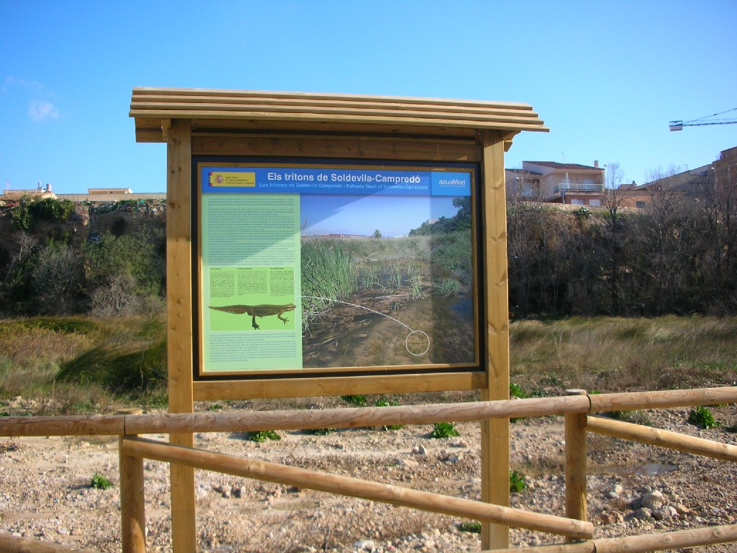 Campredó, a town near Tortosa. Marsh with protected palmate newts (Triturus helveticus)